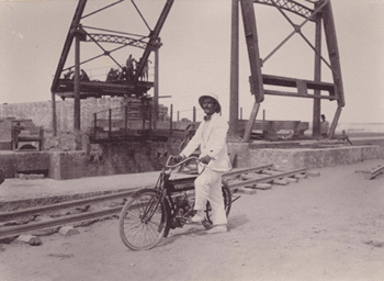 An Image of Youssef Aftimus while conducting irrigation works for the Egyptian government in 1903.